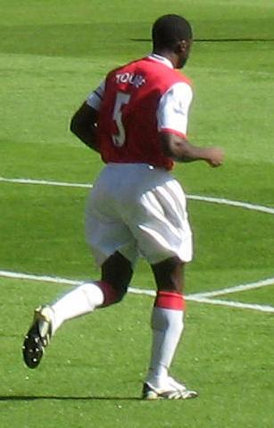 Ivorian football (soccer) player Kolo Touré